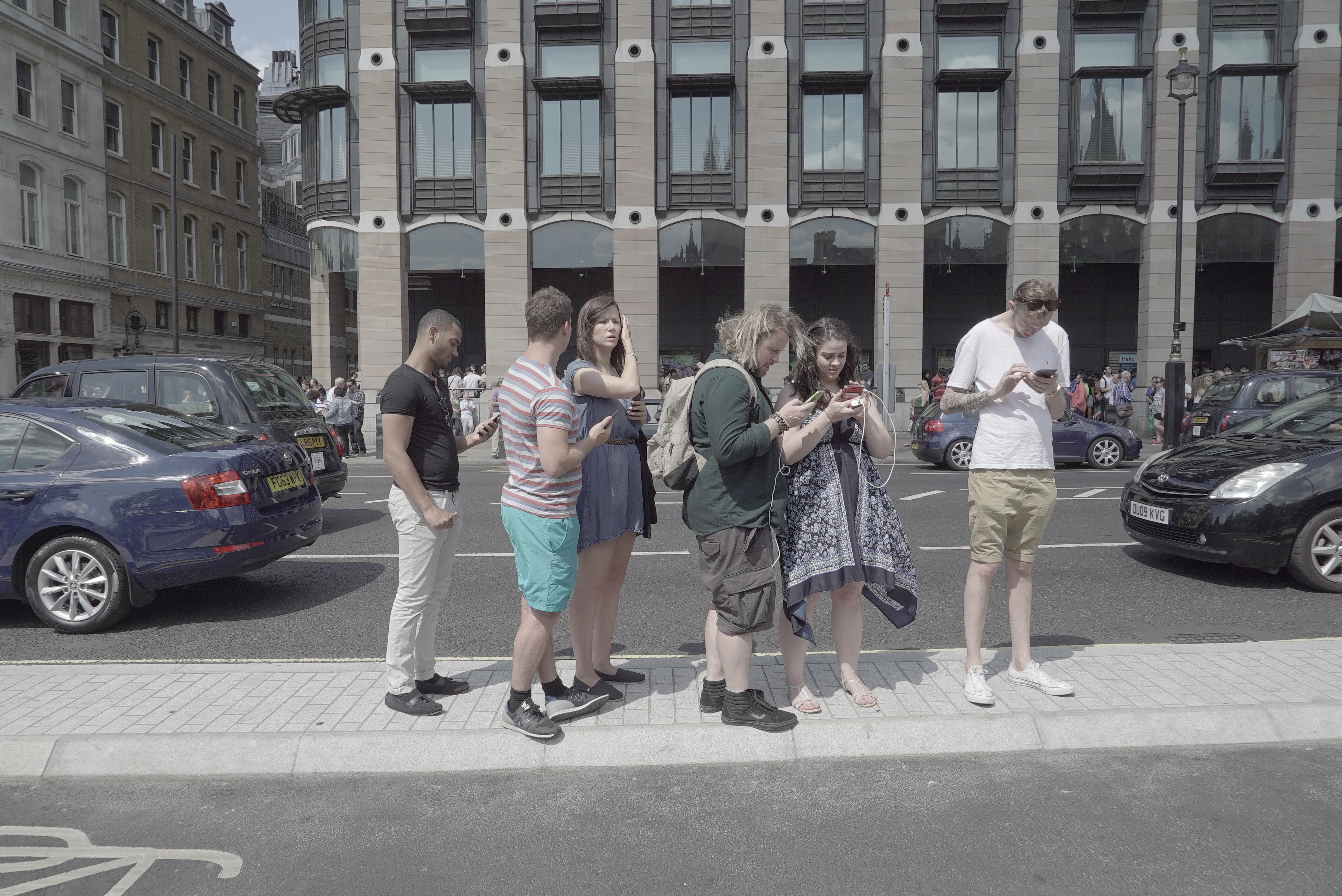 Participants in the Pokémon GO public event in London